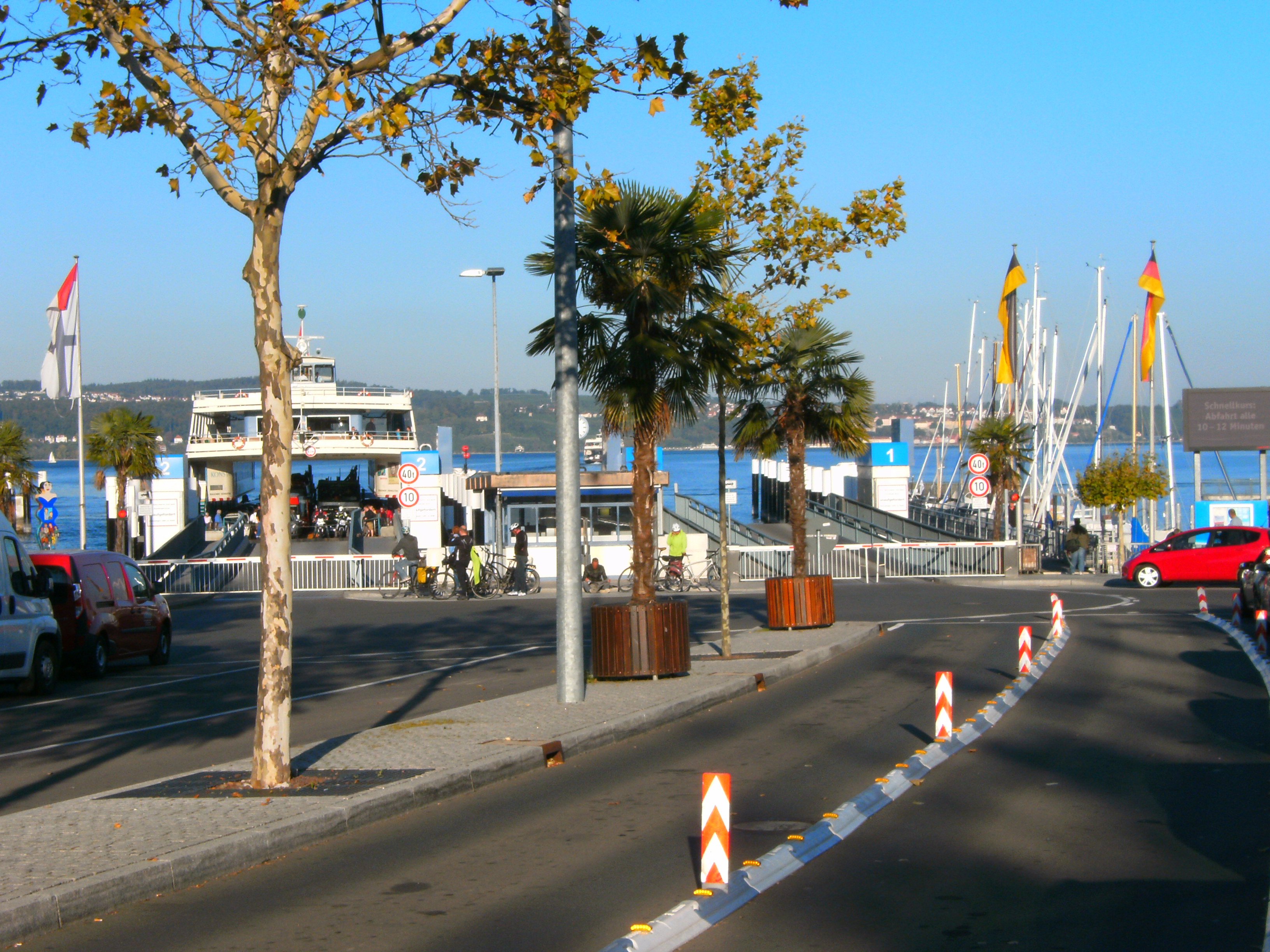 Konstanz-Meersburg ferry, Germany: waiting area at Konstanz-Staad harbour.